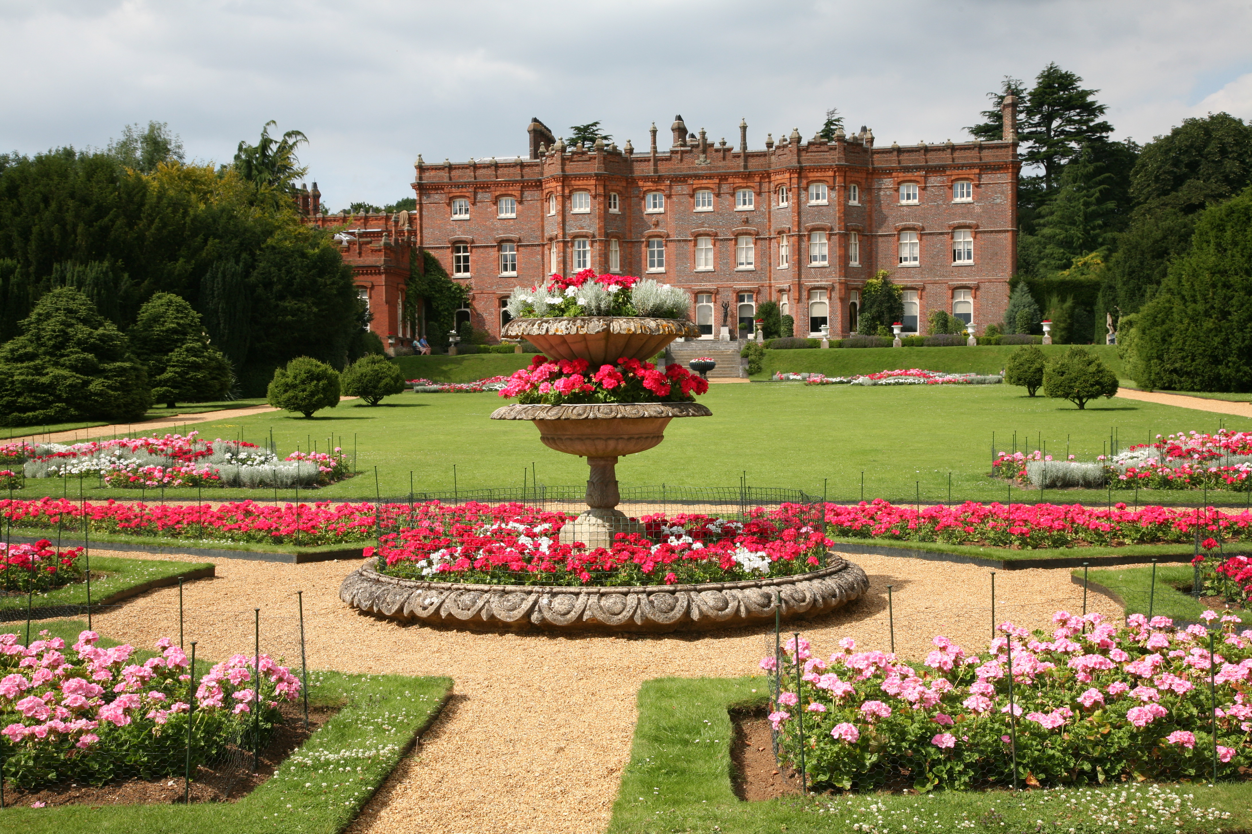 Hughenden Manor. The residence of Benjamin Disraeli, later Earl of Beaconsfield. Now a National Trust property.